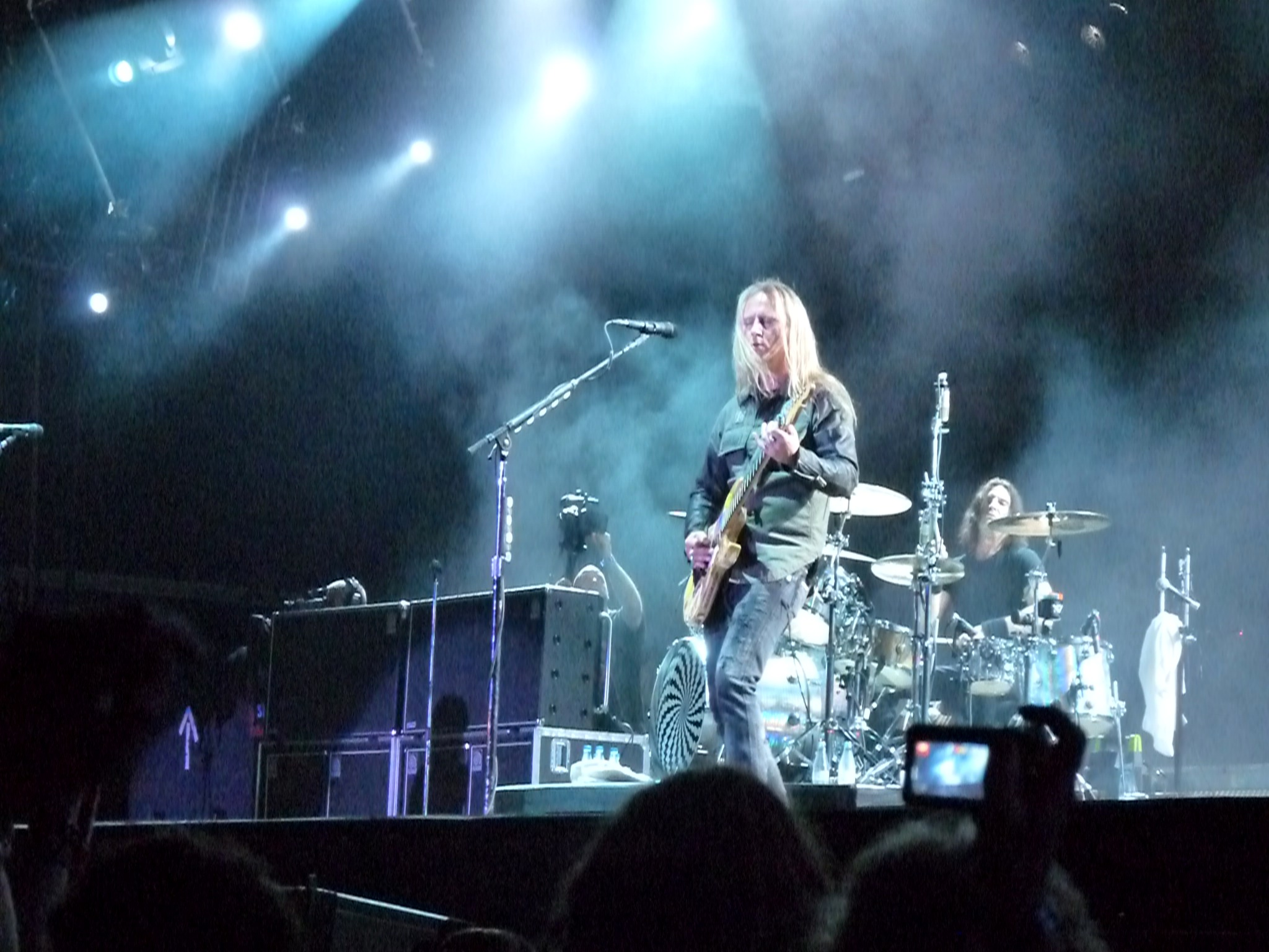 Jerry Cantrell live at Bilbao, 2010